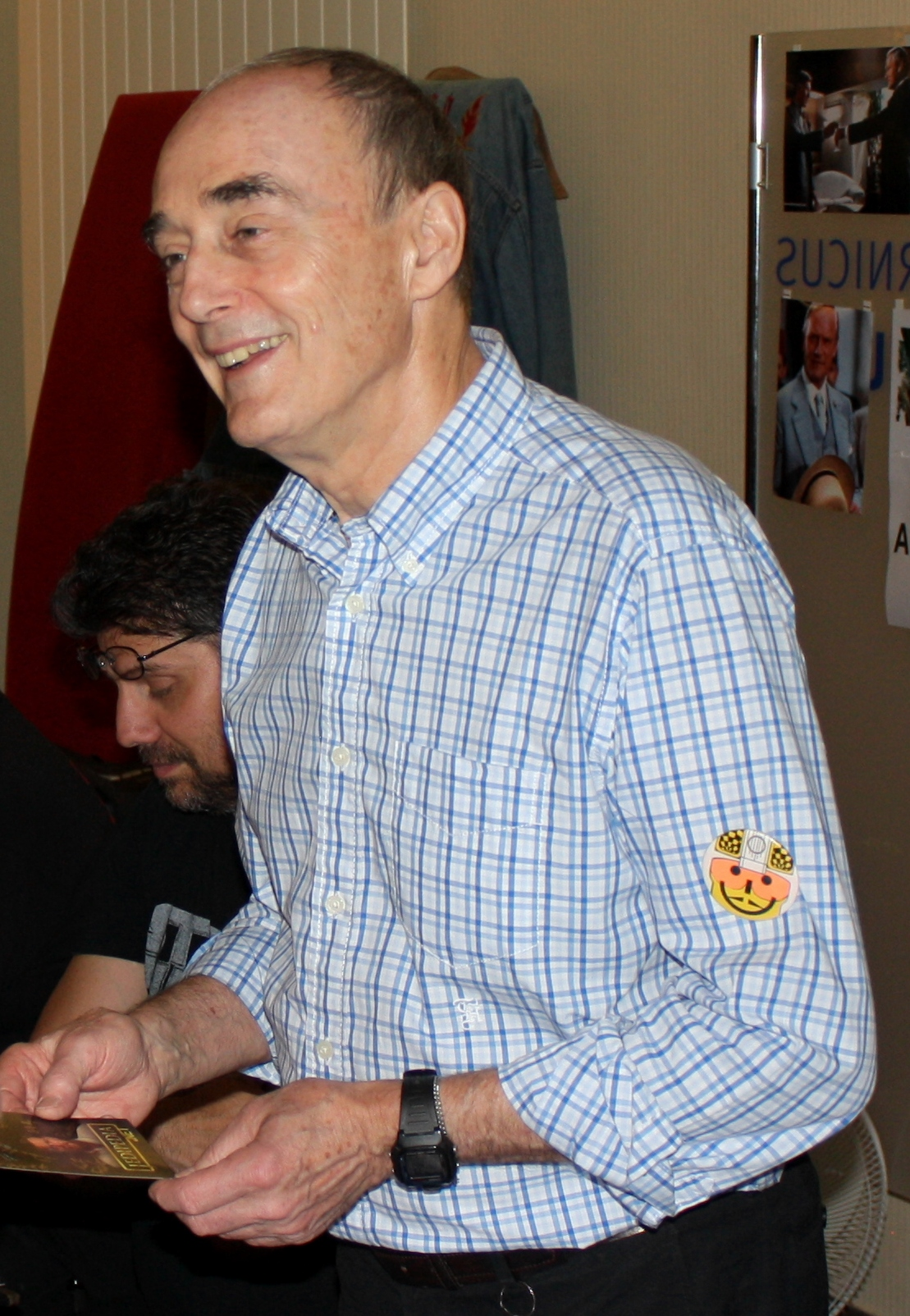 Garrick Hagon, who portrayed Biggs Darklighter in Star Wars Episode IV: A New Hope, at Noris Force Con III in Nürnberg, Germany.